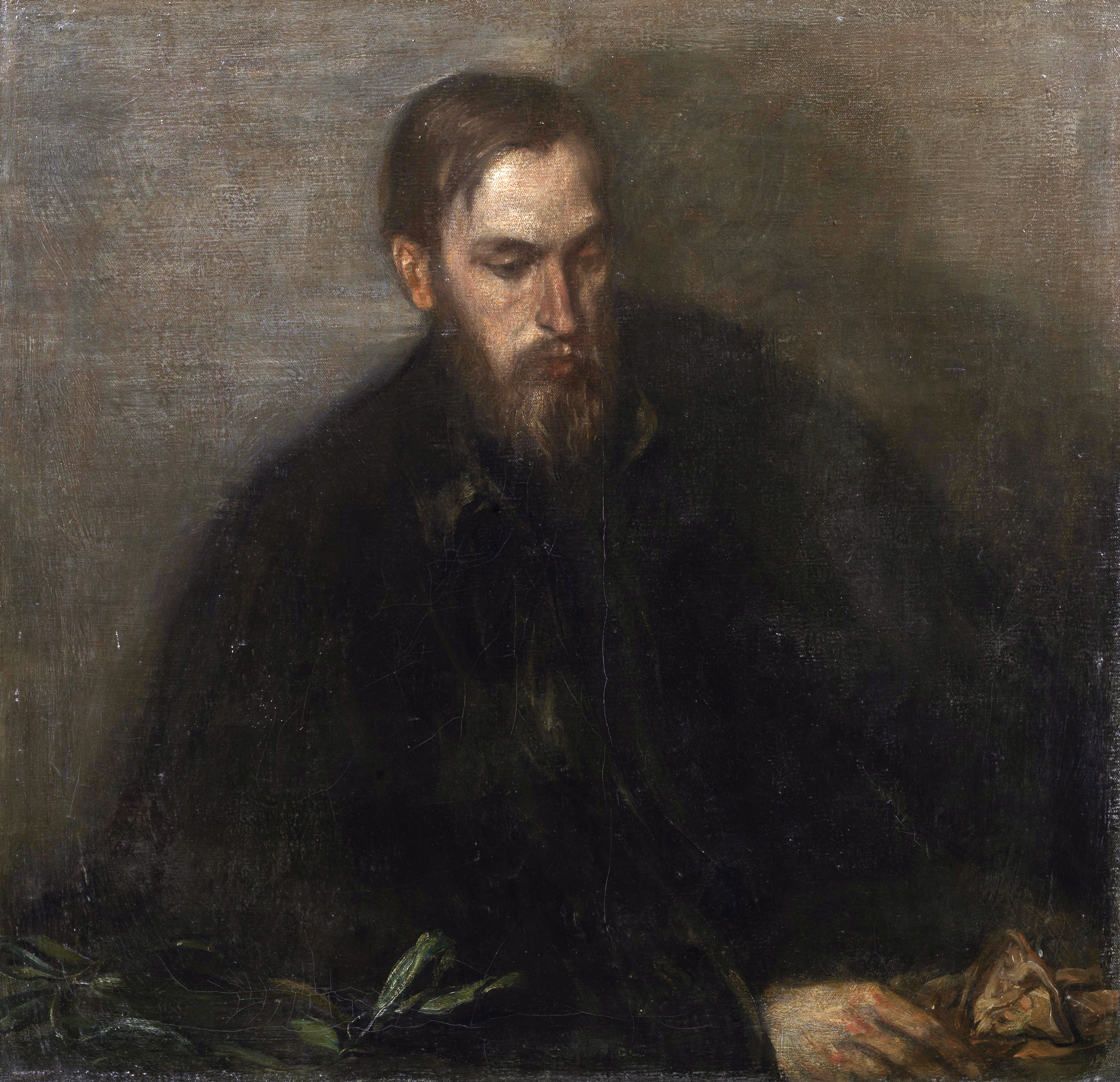 Thomas Sturge Moore, a.k.a. The man with a yellow glove on canvas 75 x 67 cm before 1898